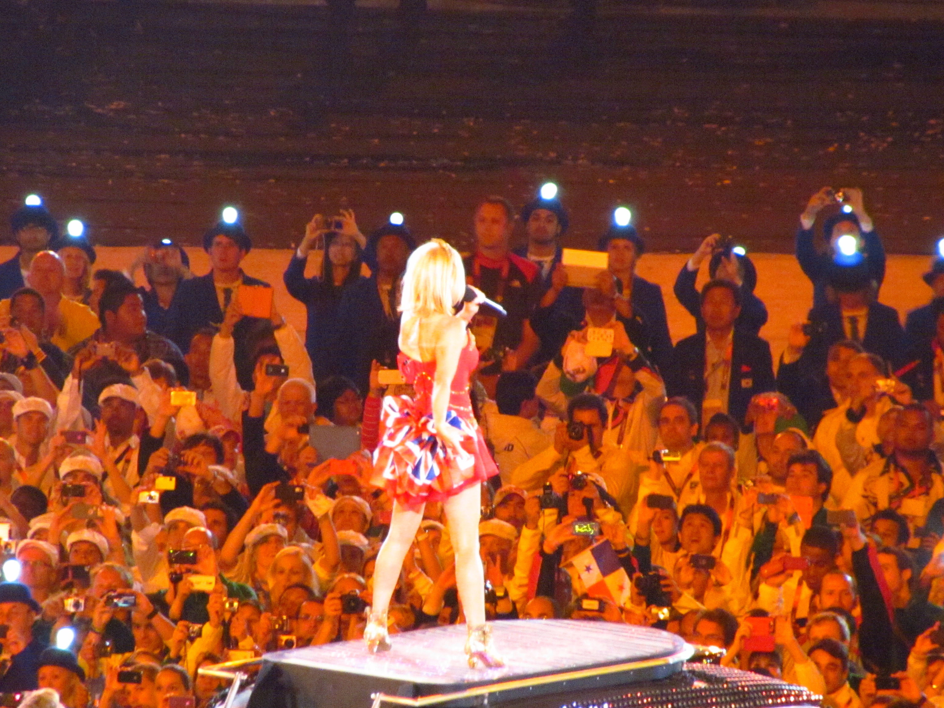 Geri Halliwell at London Olympics 2012